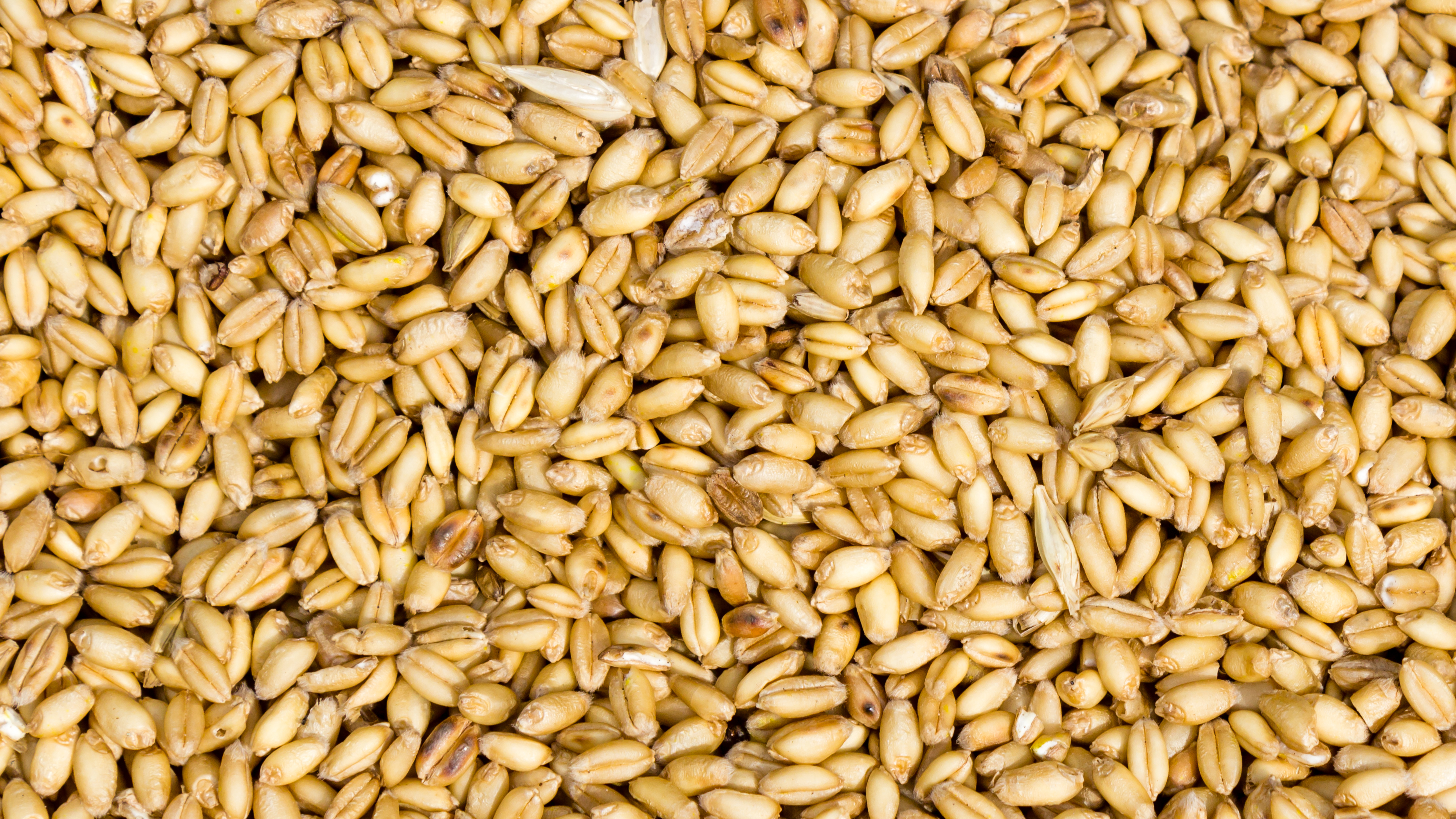 Naked wheat(Triticum aestivum) in Nepal